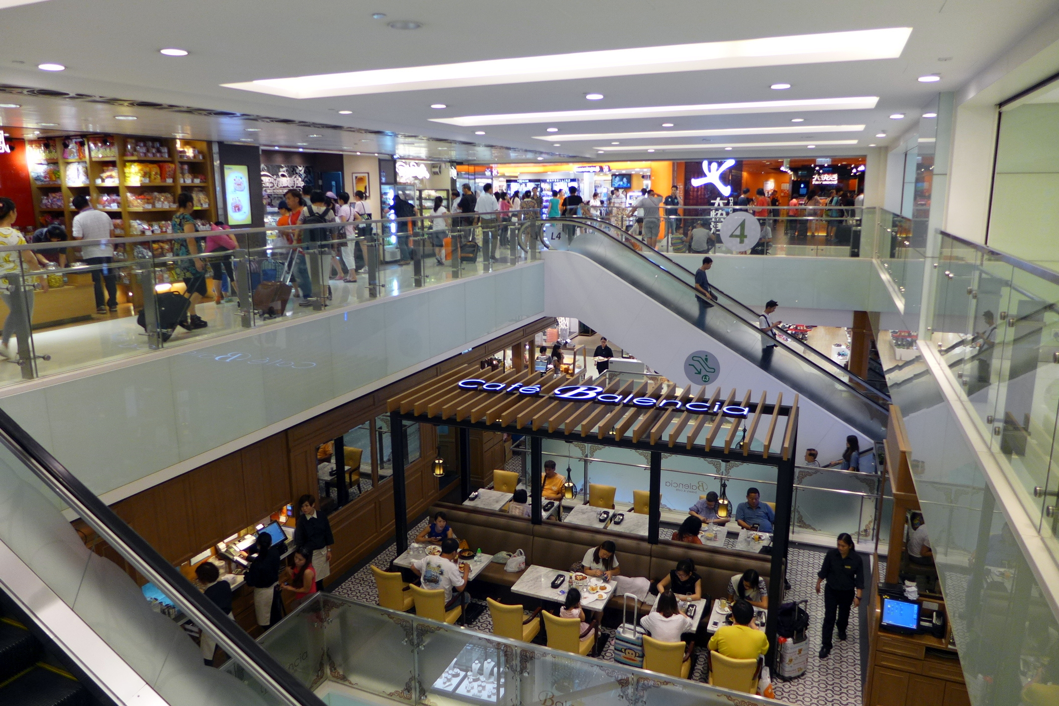 Landmark North Level 3-4 Void